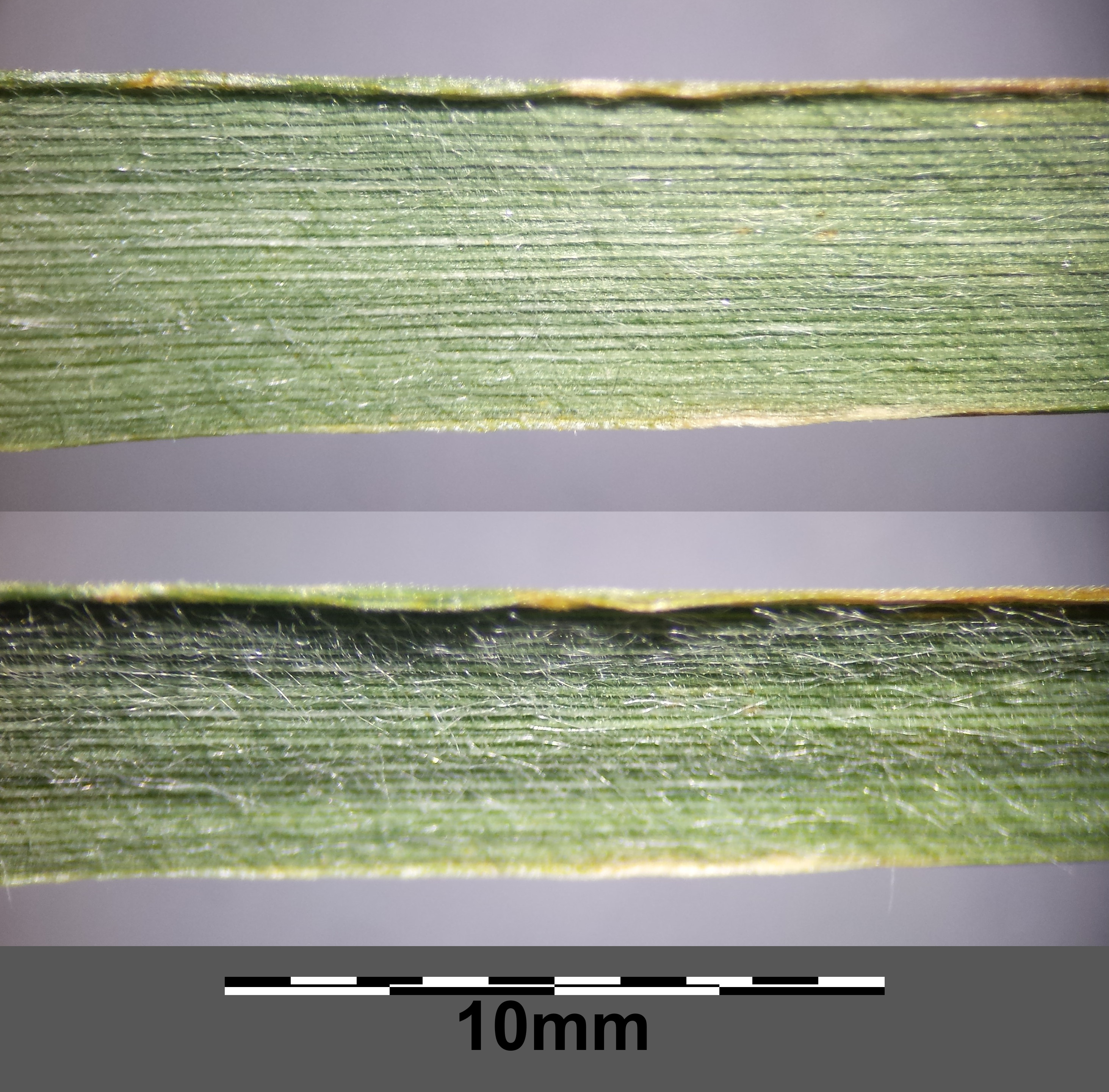 Top side of leaf Taxonym: Trisetum flavescens subsp. flavescens ss Fischer et al. EfÖLS 2008 ISBN 978-3-85474-187-9 Location: "In der Hölle" near Wetzleinsdorf, district Korneuburg, Lower Austria - ca. 280 m a.s.l. Habitat: fallow land